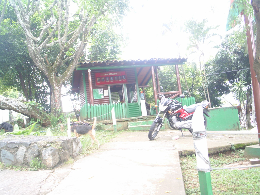 Police Station in San Antonio